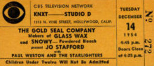 Photo of a audience ticket for The Jo Staford Show at the CBS-TV KNXT Los Angeles studios from 1954.